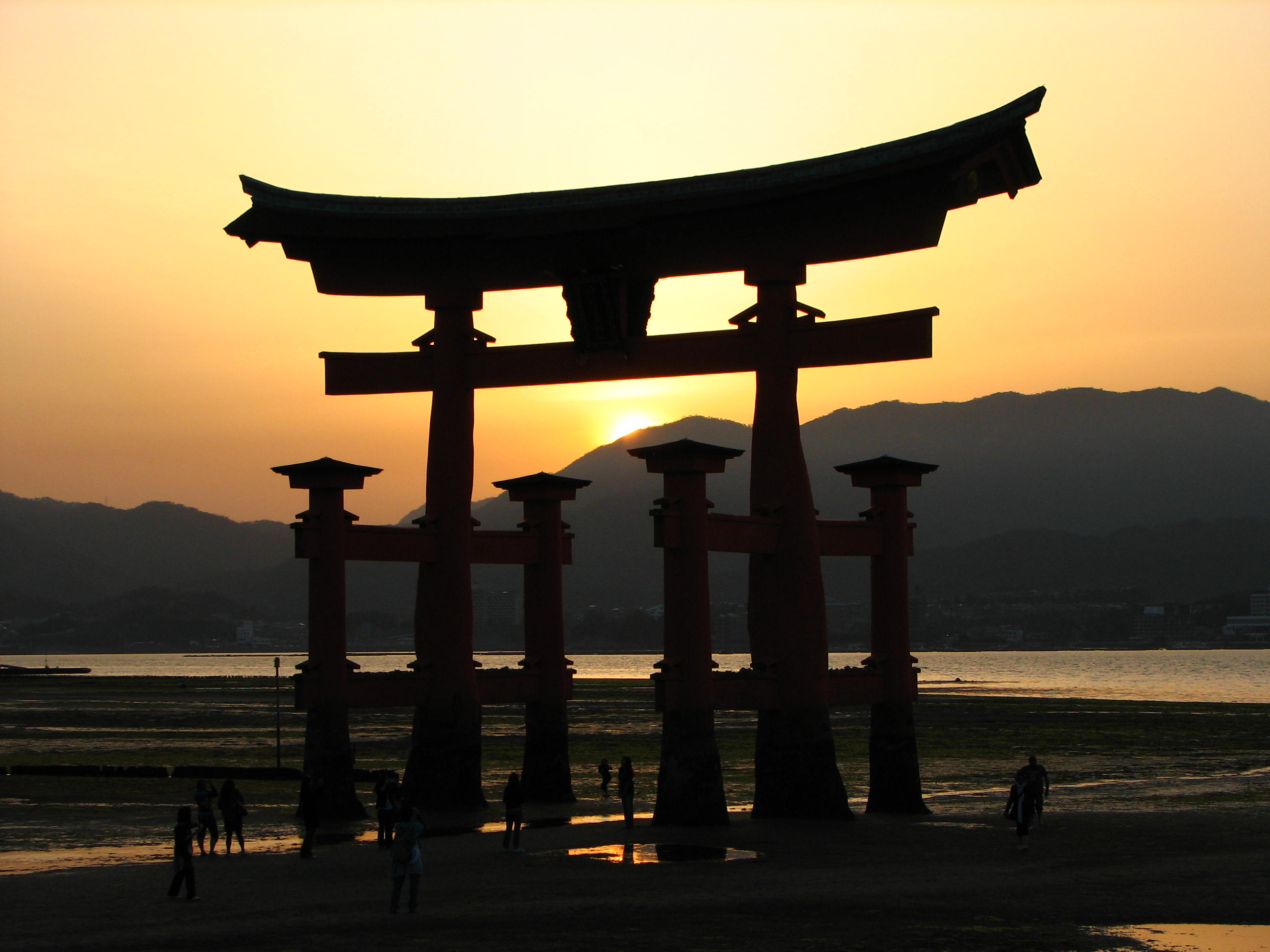 Itsukushima-jinja torii at sunset, Miyajima Island, Hiroshima Prefecture, Japan.